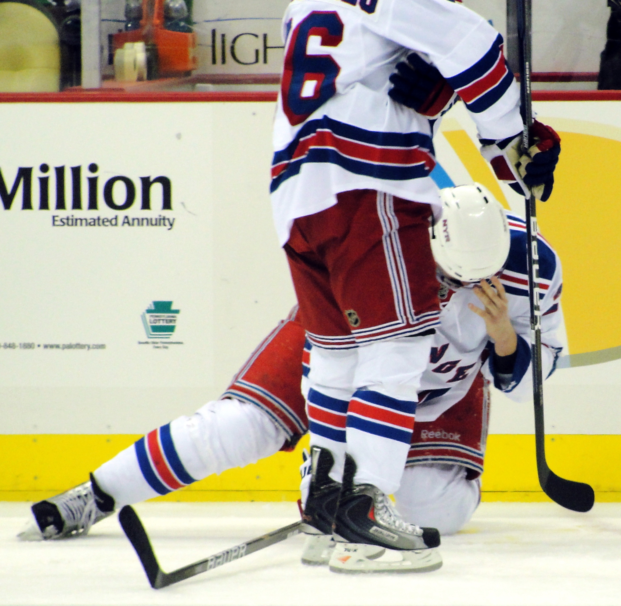 New York Rangers defenseman is slow to get up following an elbow to the head delivered by Pittsburgh Penguins forward Matt Cooke during a March 20, 2011 game. Cooke received a 17-game suspension for the hit, including the entire first round of Pittsburgh's 2011 Stanley Cup Playoffs series against the Tampa Bay Lightning, which the Penguins lost in 7 games.